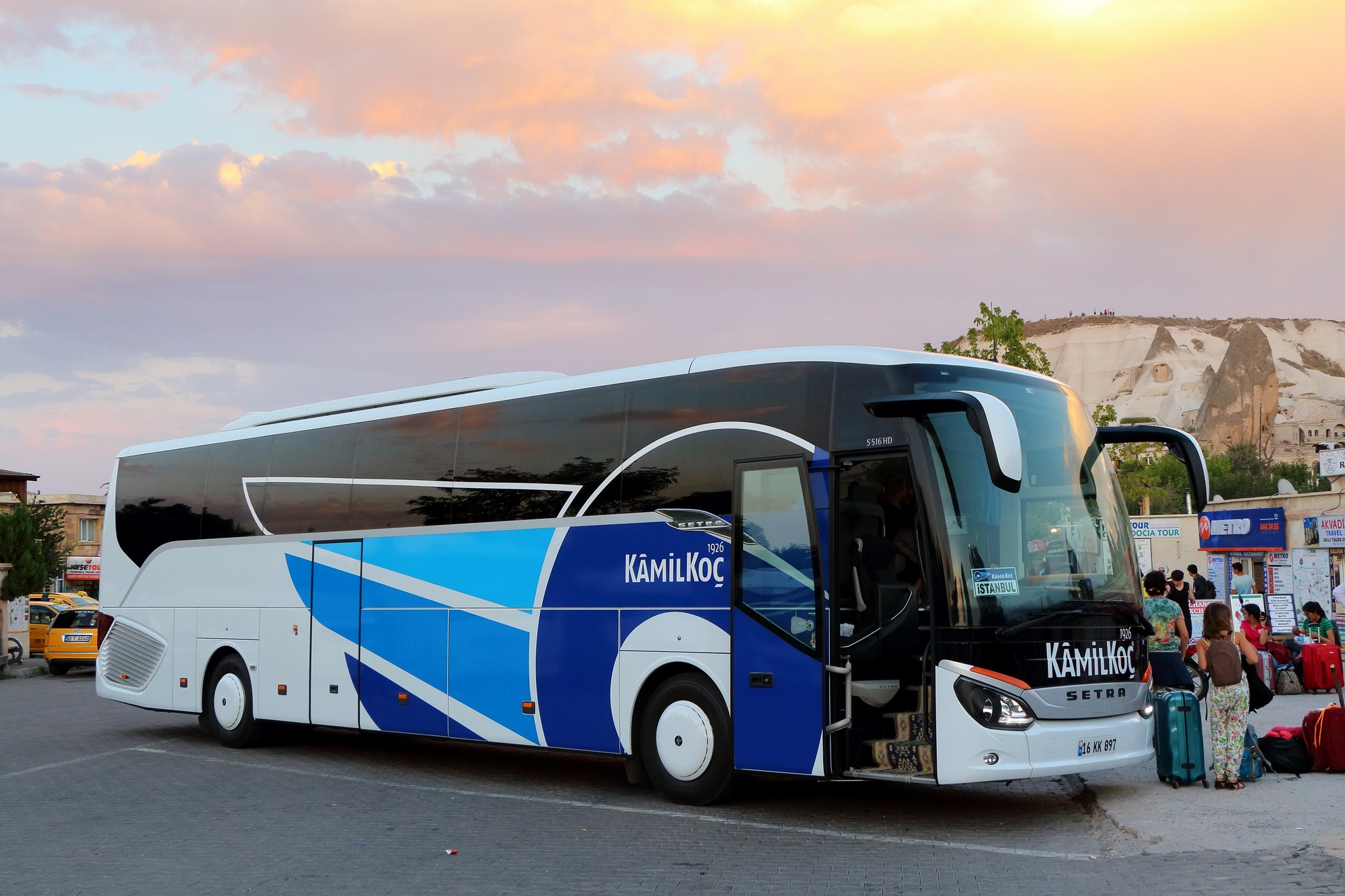 Kamil Koç Setra S 516 HD in Göreme, Nevşehir Province, Turkey